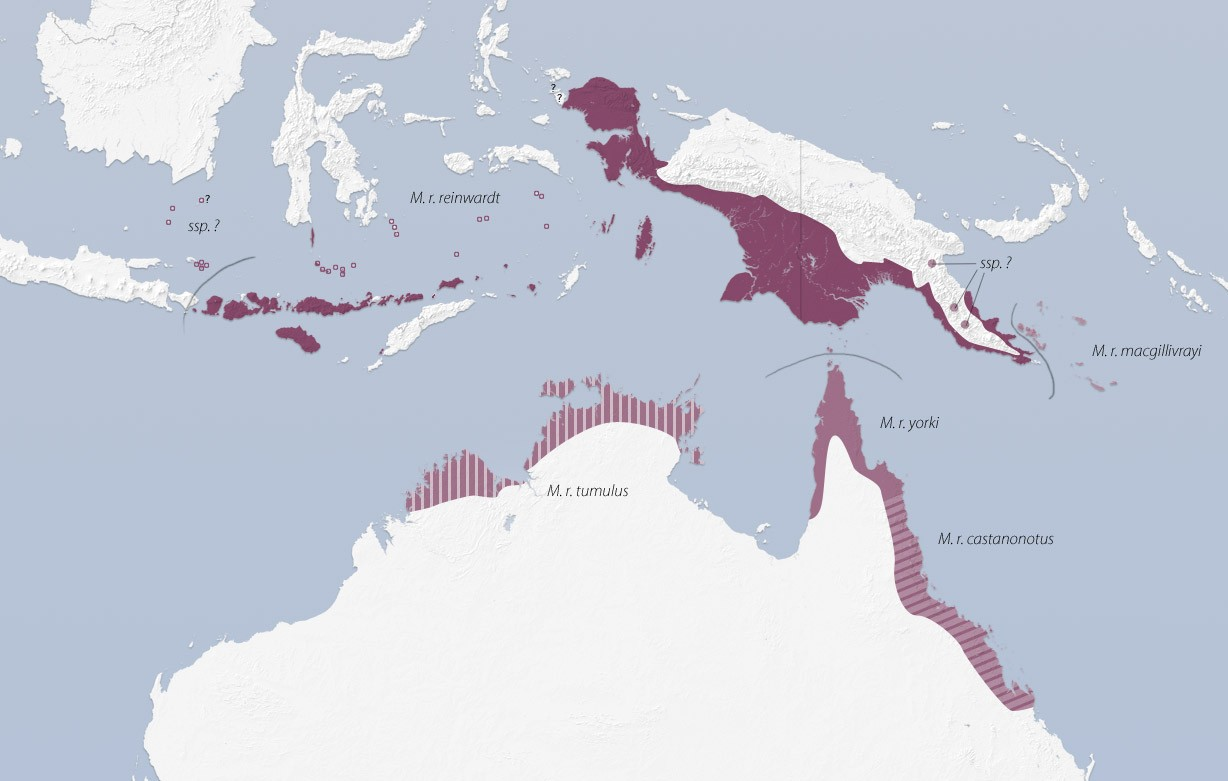 Distribution and subspecies of the Orange-footed Megapode (Megapodius reinwardt)